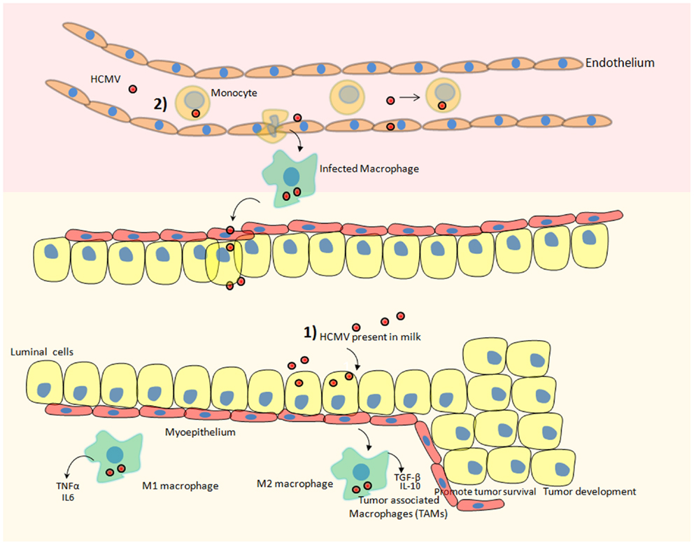 Two potential scenarios could ultimately result in breast tumor after HCMV infection. (1) HCMV that is present in the milk could directly infect the mammary epithelial cells lining the duct responsible for converting most precursors into milk constituents and transporting them to the mammary lumen. Subsequently, macrophages present in breast tissue could be also infected by HCMV favoring a protumoral microenvironment. (2) HCMV present in blood (viremia) could infect circulating monocytes. Upon migration of infected monocytes into breast tissue, HCMV-infected macrophages could transmit the virus to mammary epithelial cells. Additionally, monocytes/macrophages are regarded as a prominent reservoir of HCMV infection. HCMV infection of monocytes/macrophages can reprogram them to acquire M1/M2 characteristics. M1 macrophages secrete pro-inflammatory cytokines and M2 macrophages secrete immuno-suppressive factors that can promote the progression of breast cancer. Tumor-associated macrophages (TAM) that are of poor prognosis during breast cancer and fuel the progression of the disease could be preferentially activated by HCMV.